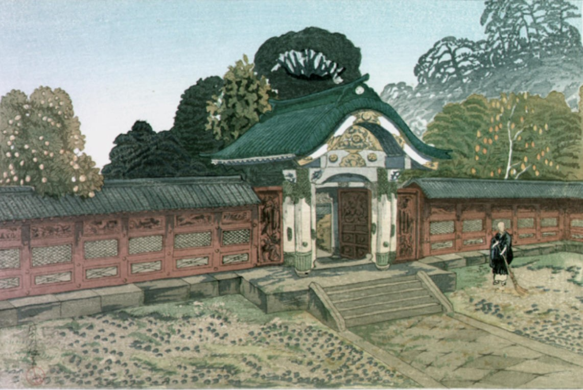 Oda Mausoleum at Shiba